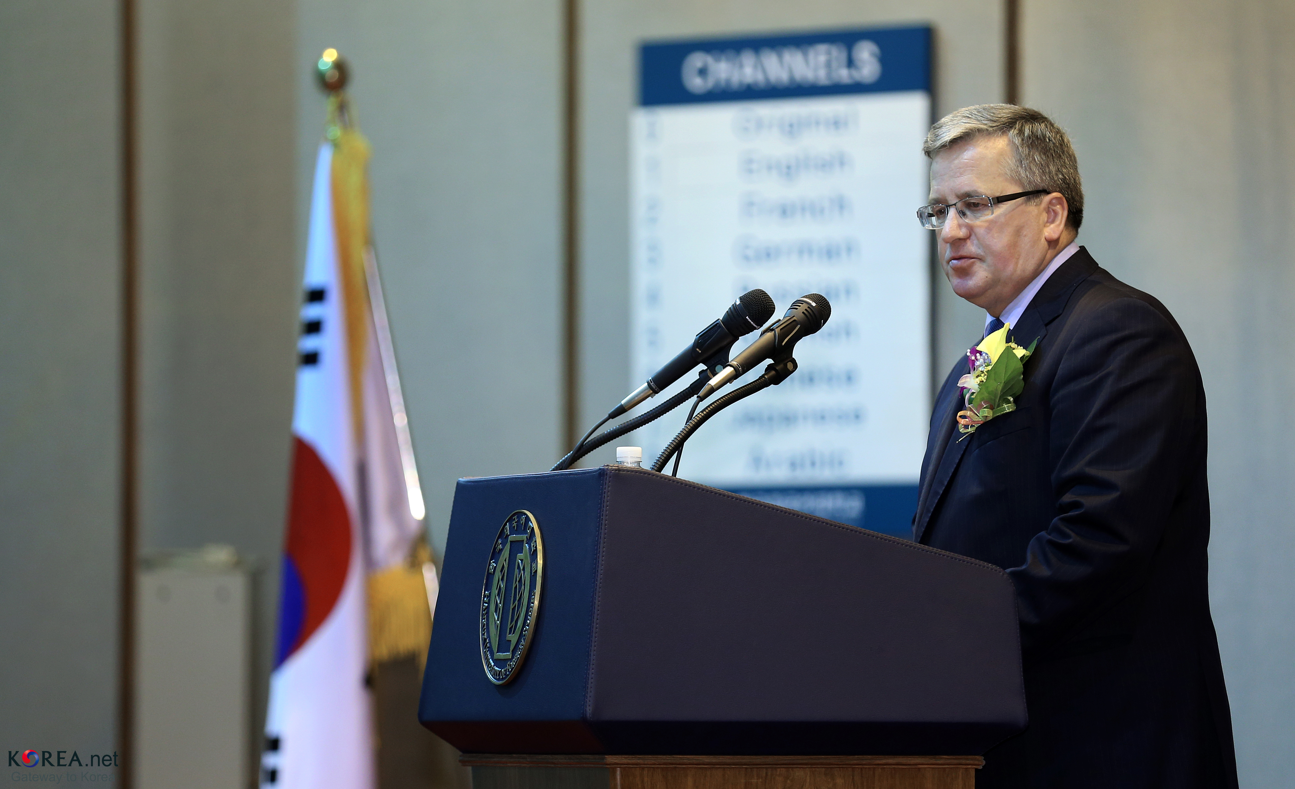 Special Lecture by Polish President Bronislaw Komorowski Hankuk University of Foreign Studies , Seoul October 23, 2013 Related Articles Cheong Wa Dae – English Polish President delivers special lecture to Korean youth -English- Polish President delivers special lecture to Korean youth -中文- 波兰总统布罗尼斯瓦夫•科莫罗夫斯基为韩国的年轻人演讲 -日本語- ポーランドのコモロフスキ大統領、韓国の若者たちの前で講演 Ministry of Culture, Sports and Tourism Korean Culture and Information Service ( JEON HAN 브로니스와프 코모로프스키 폴란드 대통령 한국외국어대학교 특별강연 2013.10.23. 한국외국어대학교, 서울 문화체육관광부 해외문화홍보원 코리아넷 전한